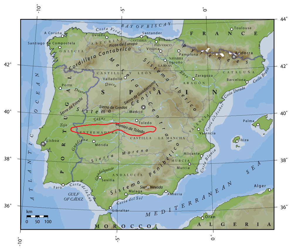 Outline of the Montes de Toledo